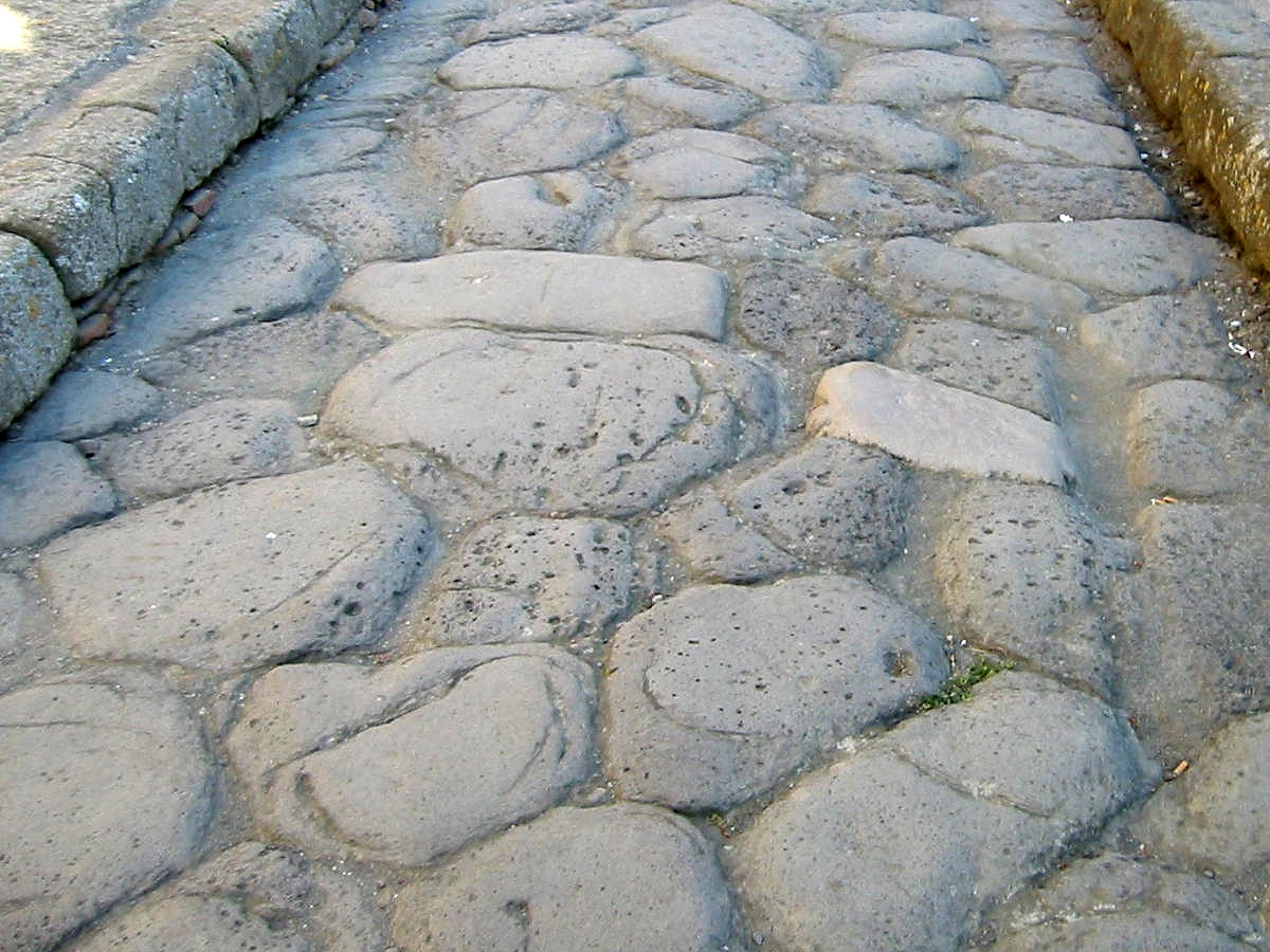 Surface of a roman road in Herculaneum, which was buried by the eruption of mount Vesuvius 79 AD